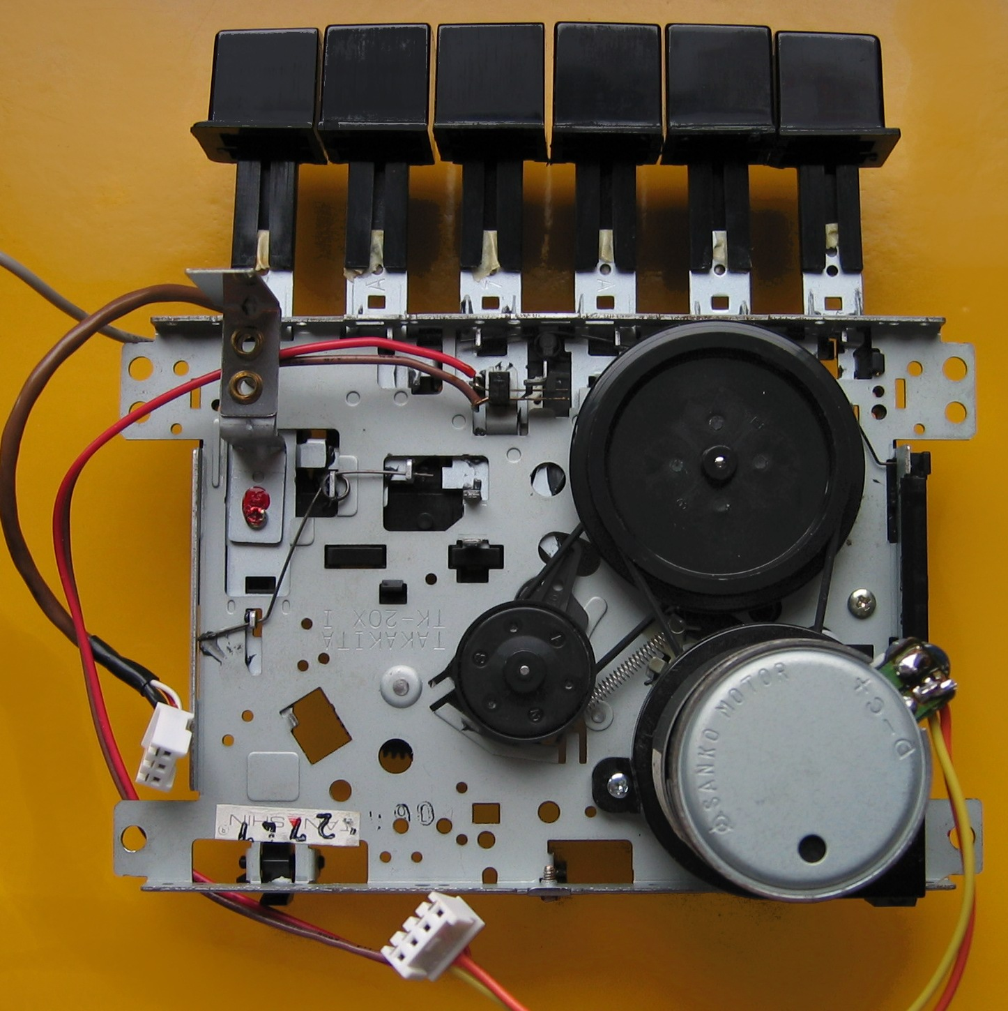 Compact Cassette Tape Drive mechanism rear side